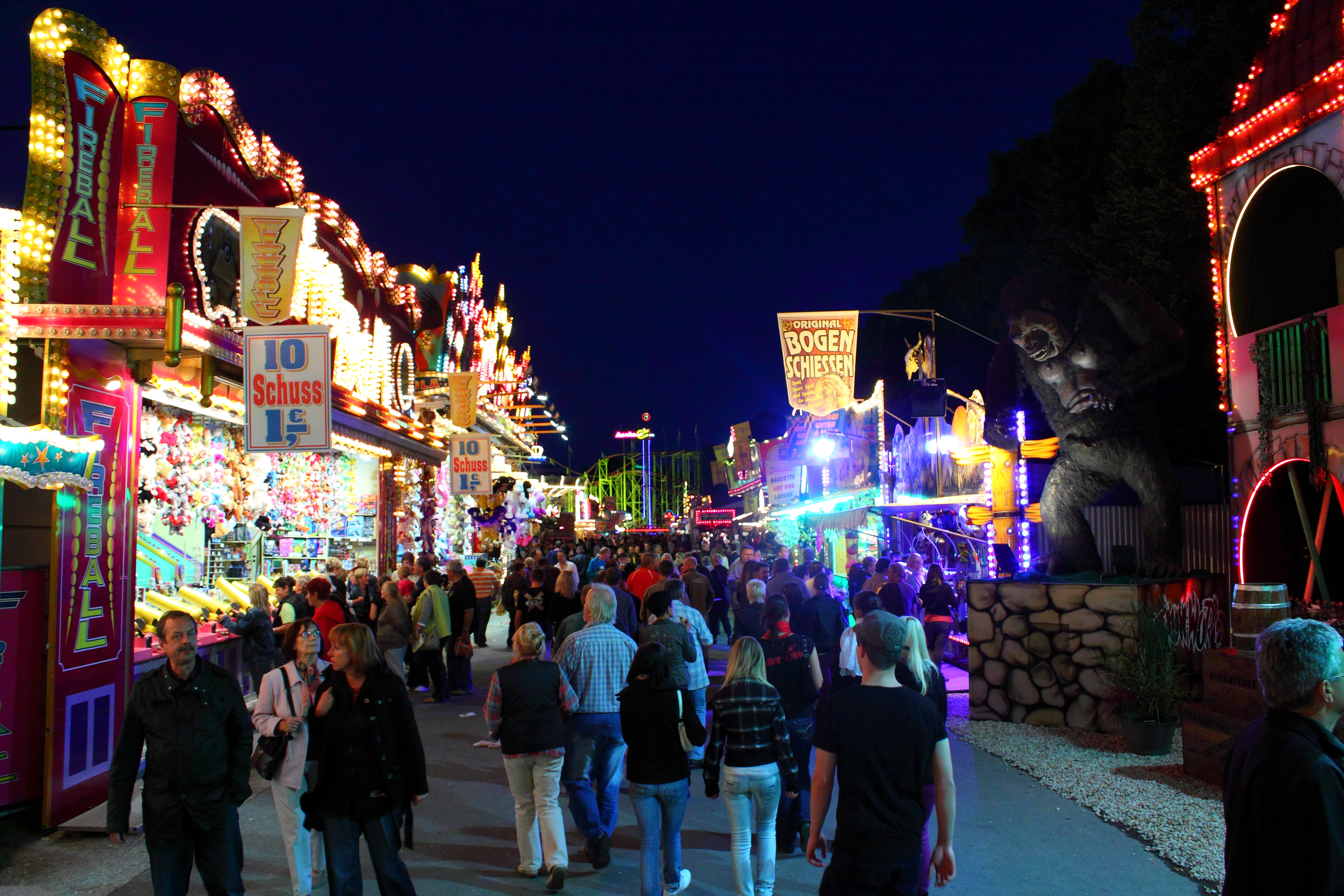 Popinjay Rudolstadt